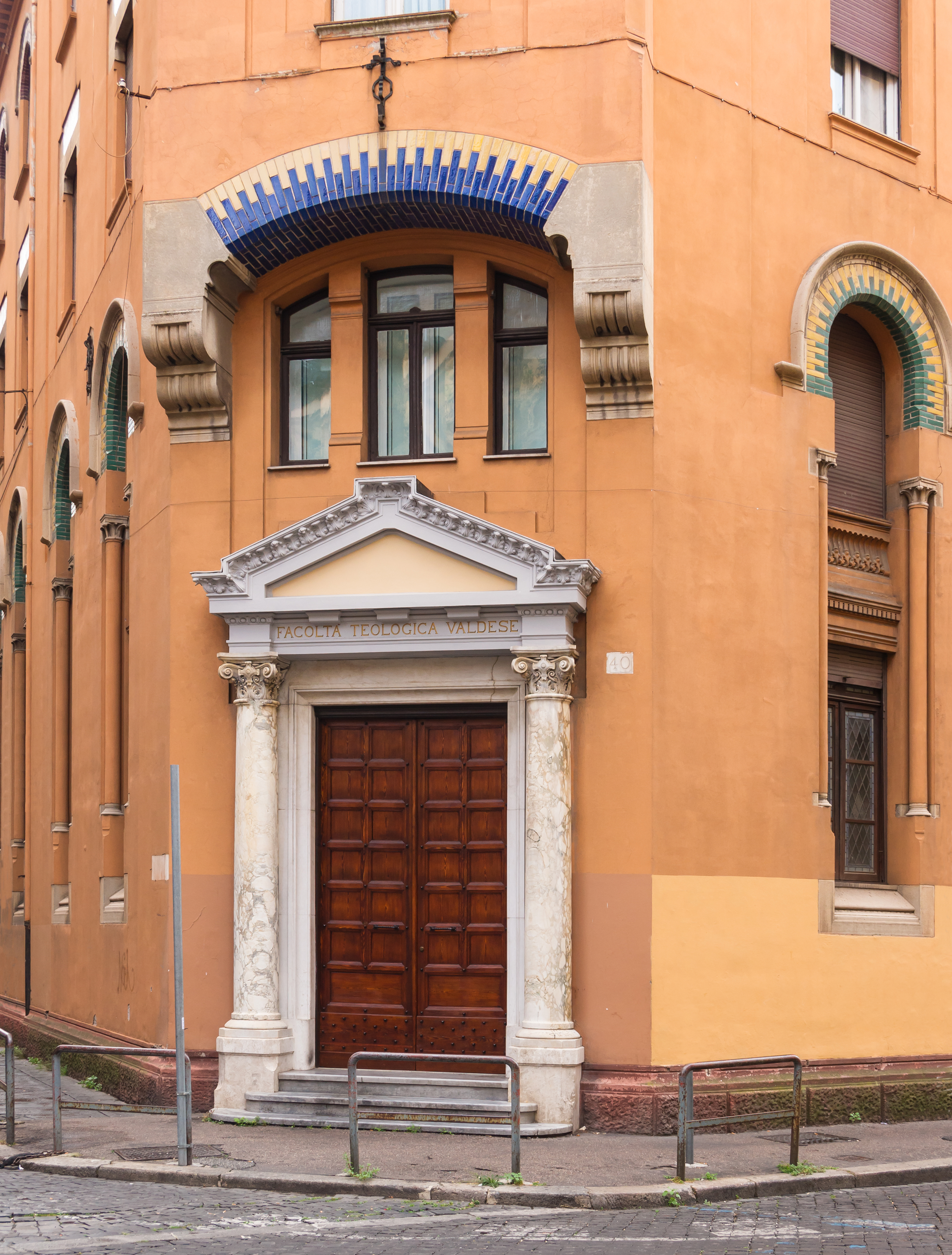 The main entrance of the waldensian theological faculty, Rome, Italy.